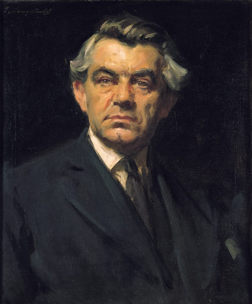 Maurice Moscovitch by John Longstaff - Winner 1925 Archibald Prize